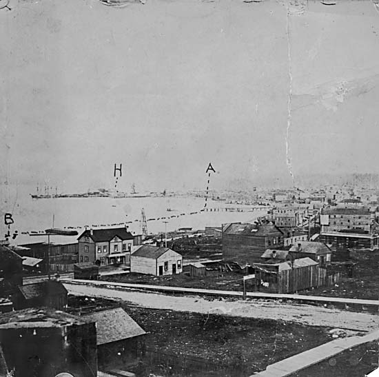 Vancouver, about end of 1886 (after fire), showing Cordova and Hastings Streets, and the City Wharf. - 1886; reproduced [190-?] Source: Vancouver Archives